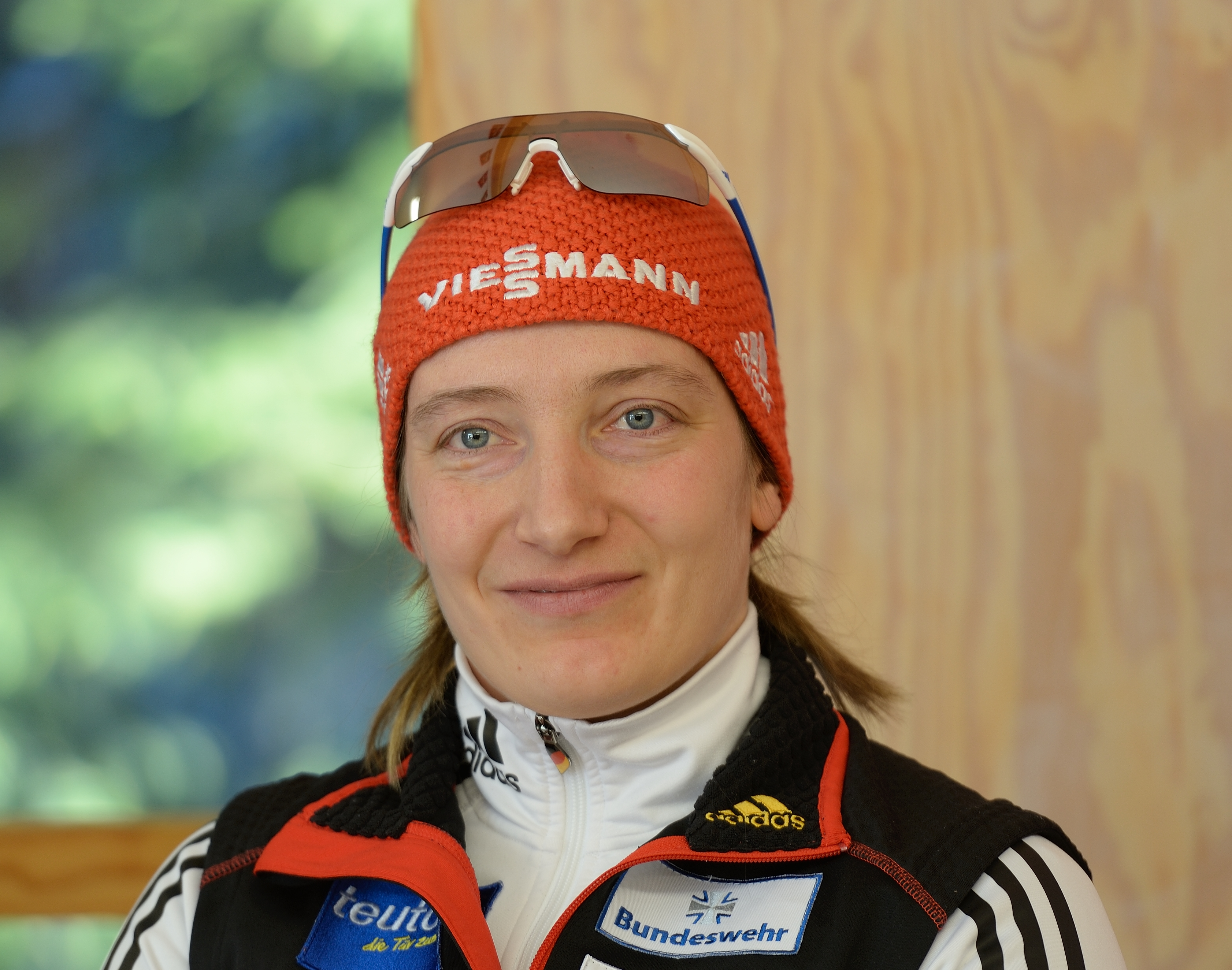 Luge world cup race season 2014/15 in Altenberg/Germany, 19th to 22nd Februar 2015. Day 1: training - press conference german team.